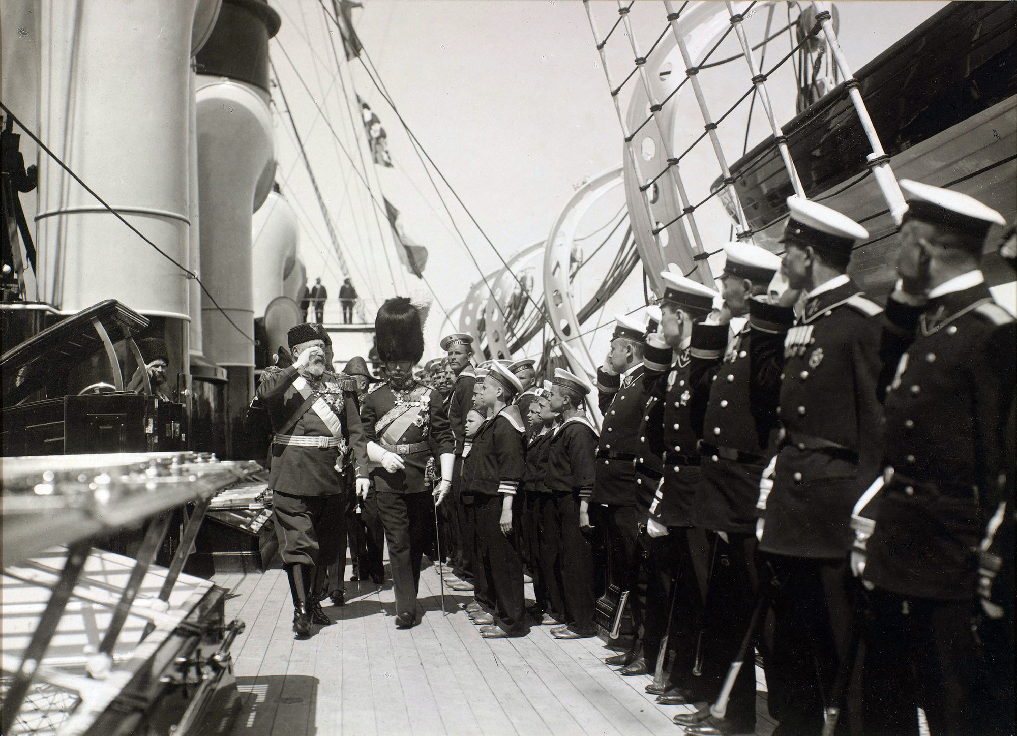 1908. King Edward VII and Czar Nicholas II bypass operation team on the yacht "Standart". Catalogue of Russian imperial yacht. Publisher "EGO". St. Petersburg, 1997.